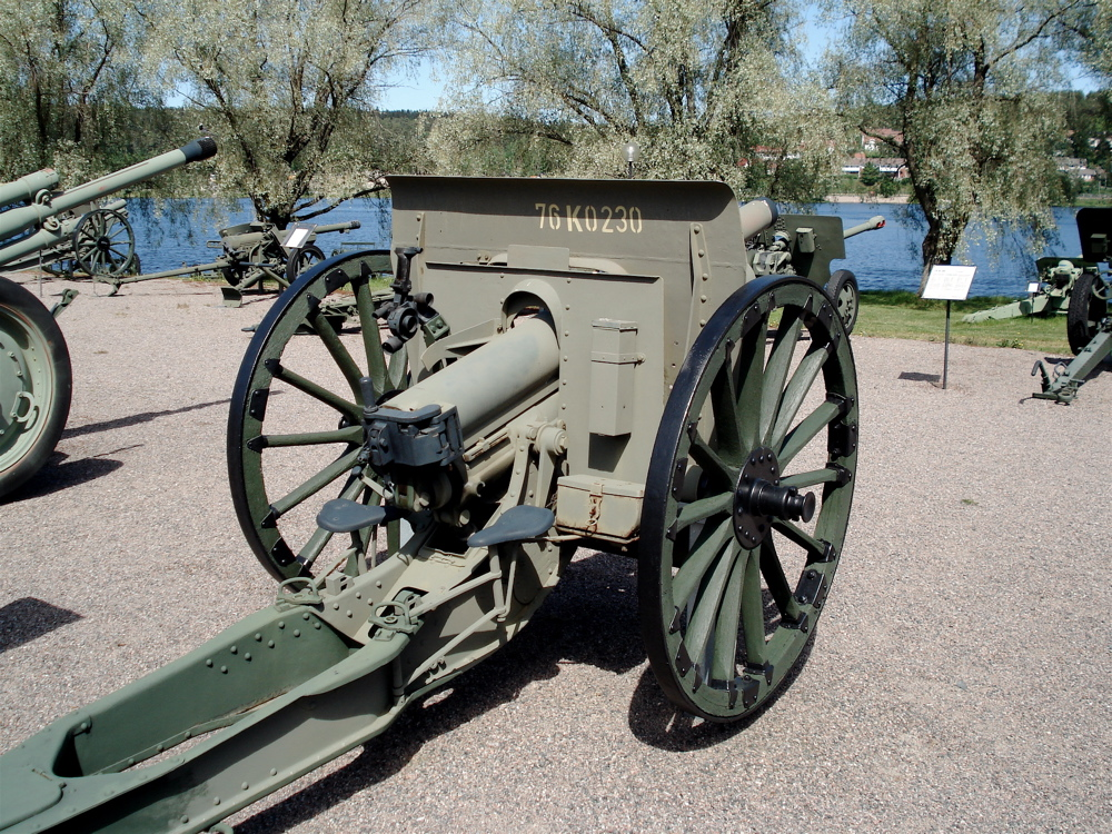 Russian 76.2 mm gun Model 1902/30, displayed in Hämeenlinna Artillery Museum. Photo taken on June 18, 2006. Source: Photo by me, User:Balcer.